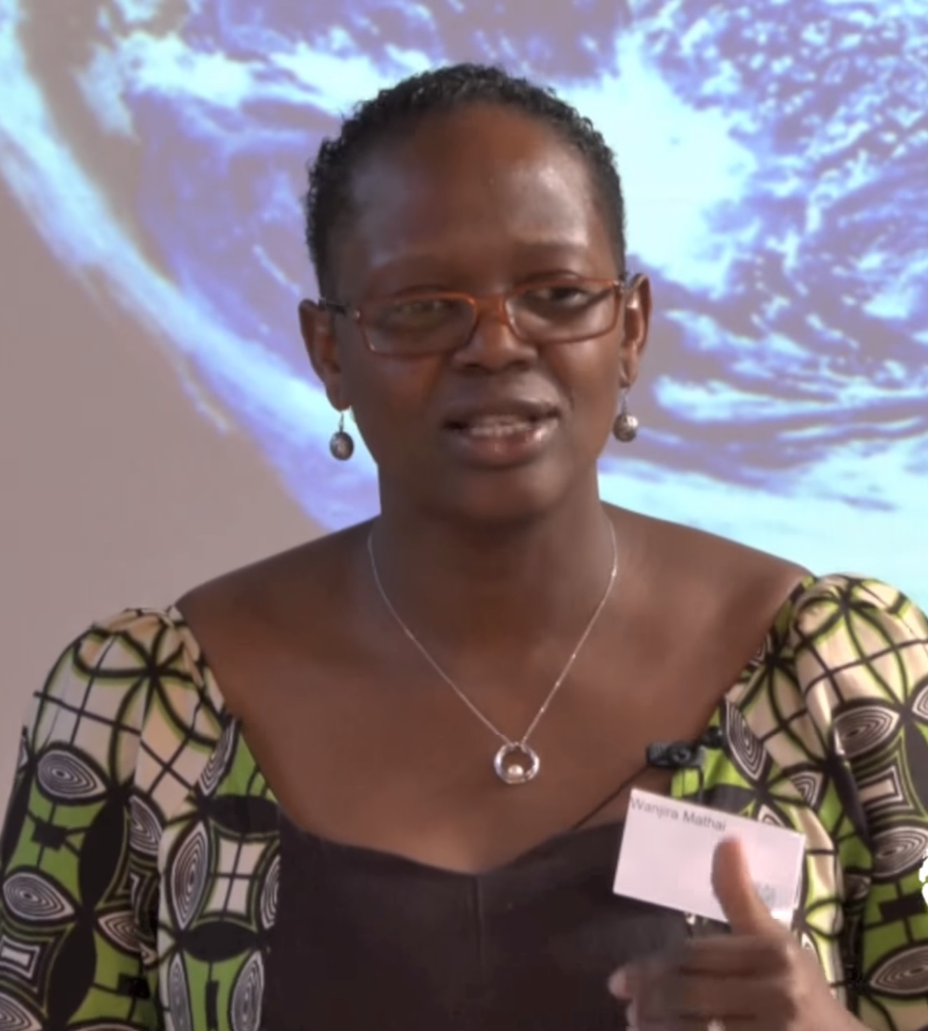 Kenyan environmentalist Wanjira Mathai speaking at Global Scholars Symposium 2013